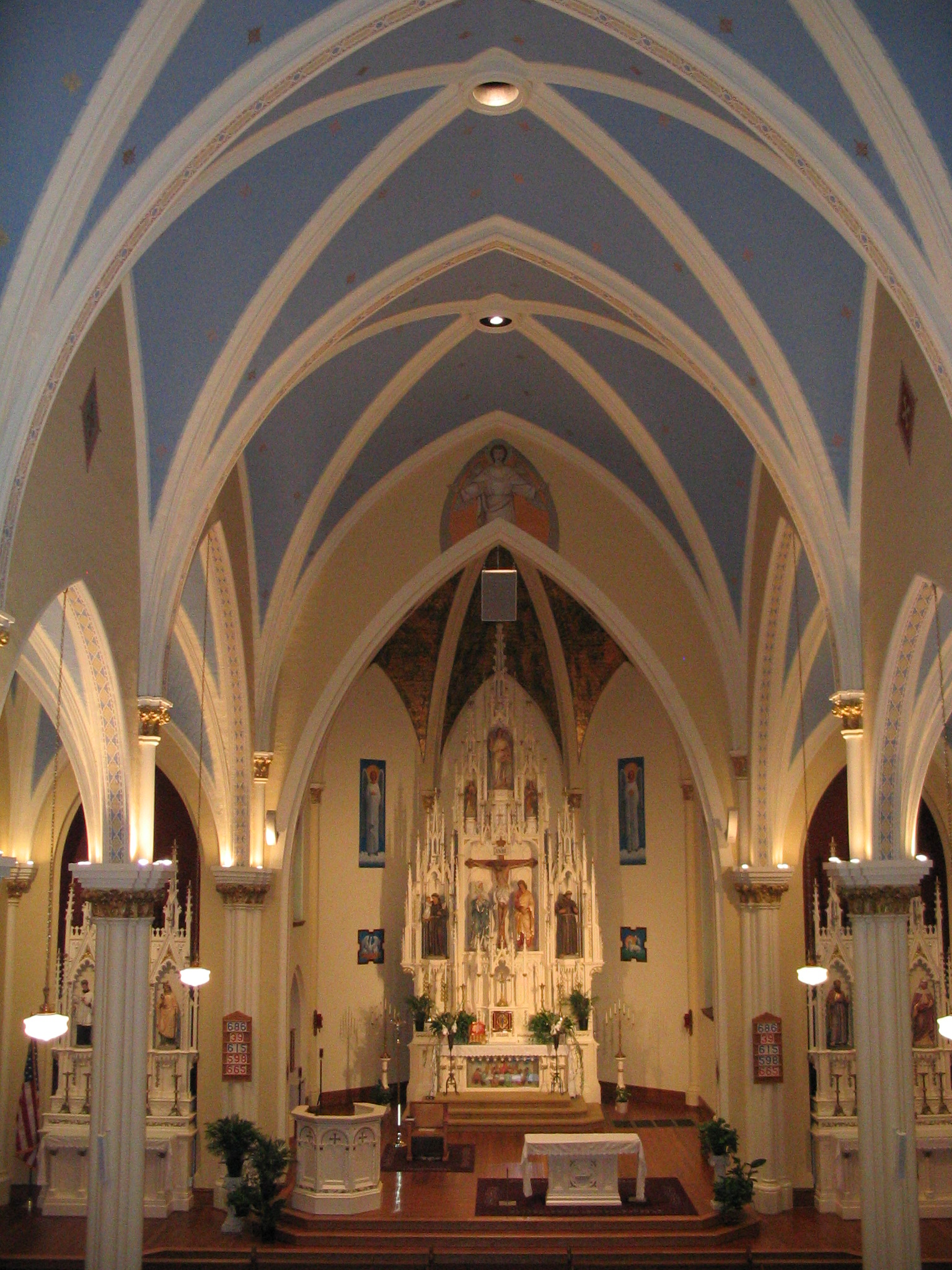 Photographed by Eric Crowell (self)